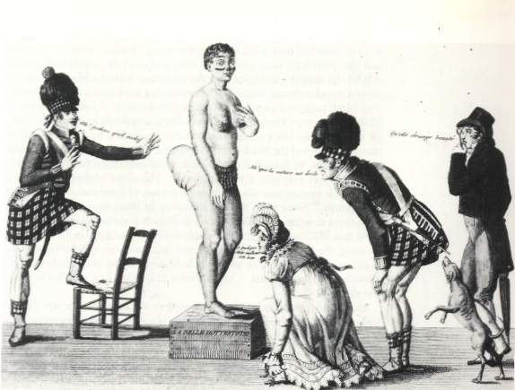 19th century French print "La Belle Hottentot" of Saartjie Baartman. This book is one of many academic references to it